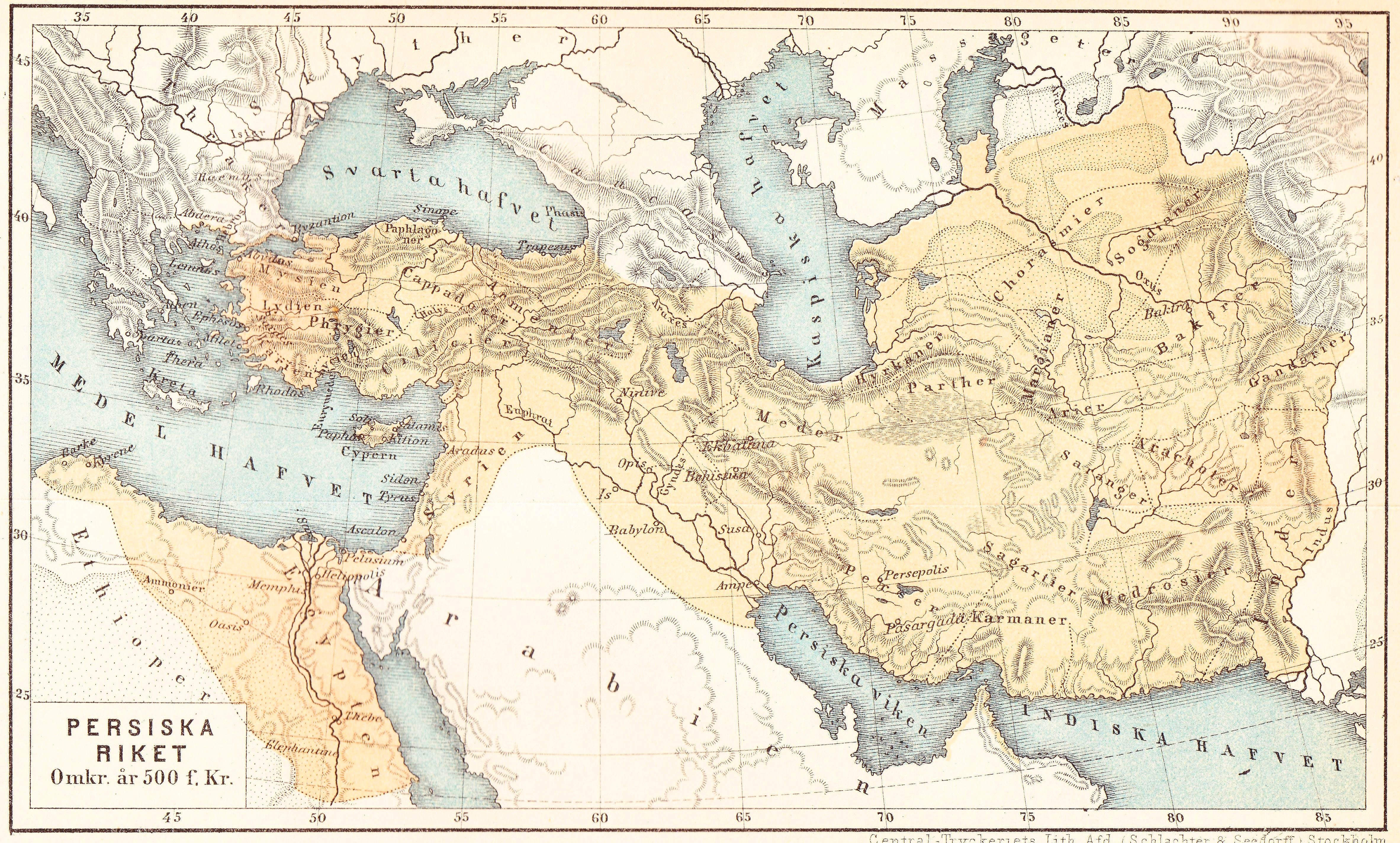 Map from "Illustrerad verldshistoria utgifven av E. Wallis. volume I": The Achaemenid Empire, 500 BC.